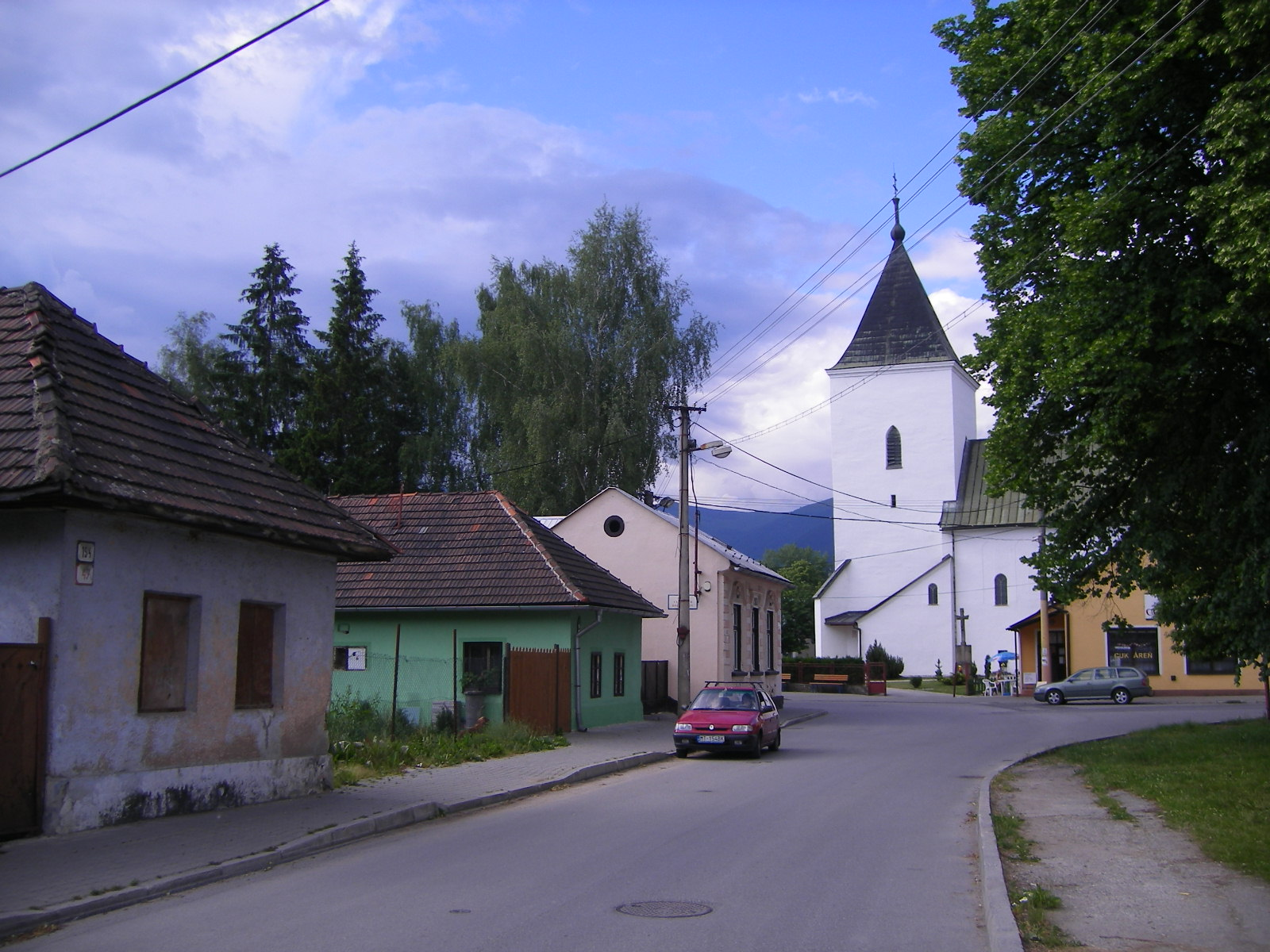 Sučany - catholic church This medium shows the protected monument with the number 506-627/0 (other) in the Slovak Republic.